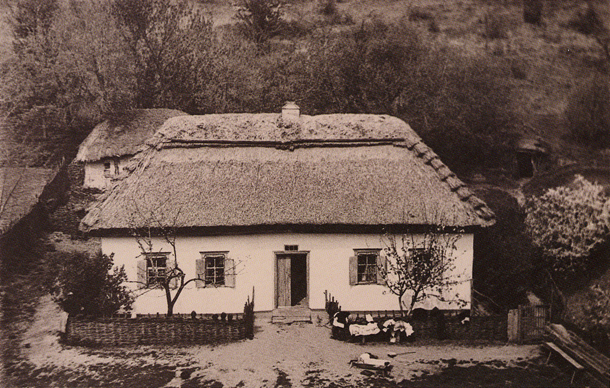 Traditional house with a thatched roof — in the village of Veremiyivka. Located in Chornobai Raion (district), Cherkasy Oblast (province), of central Ukraine. Photo: c. end of 19th century.